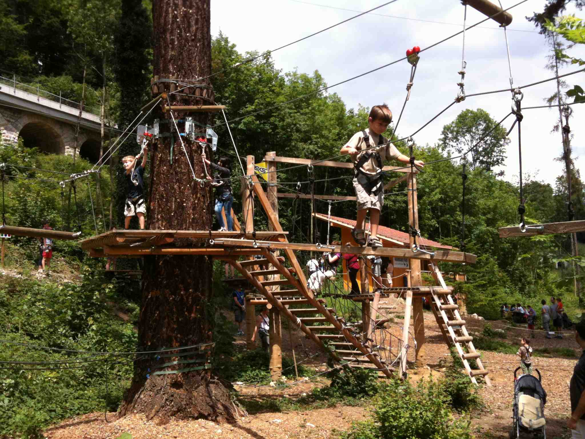 Rheinfall Ropes Course_4